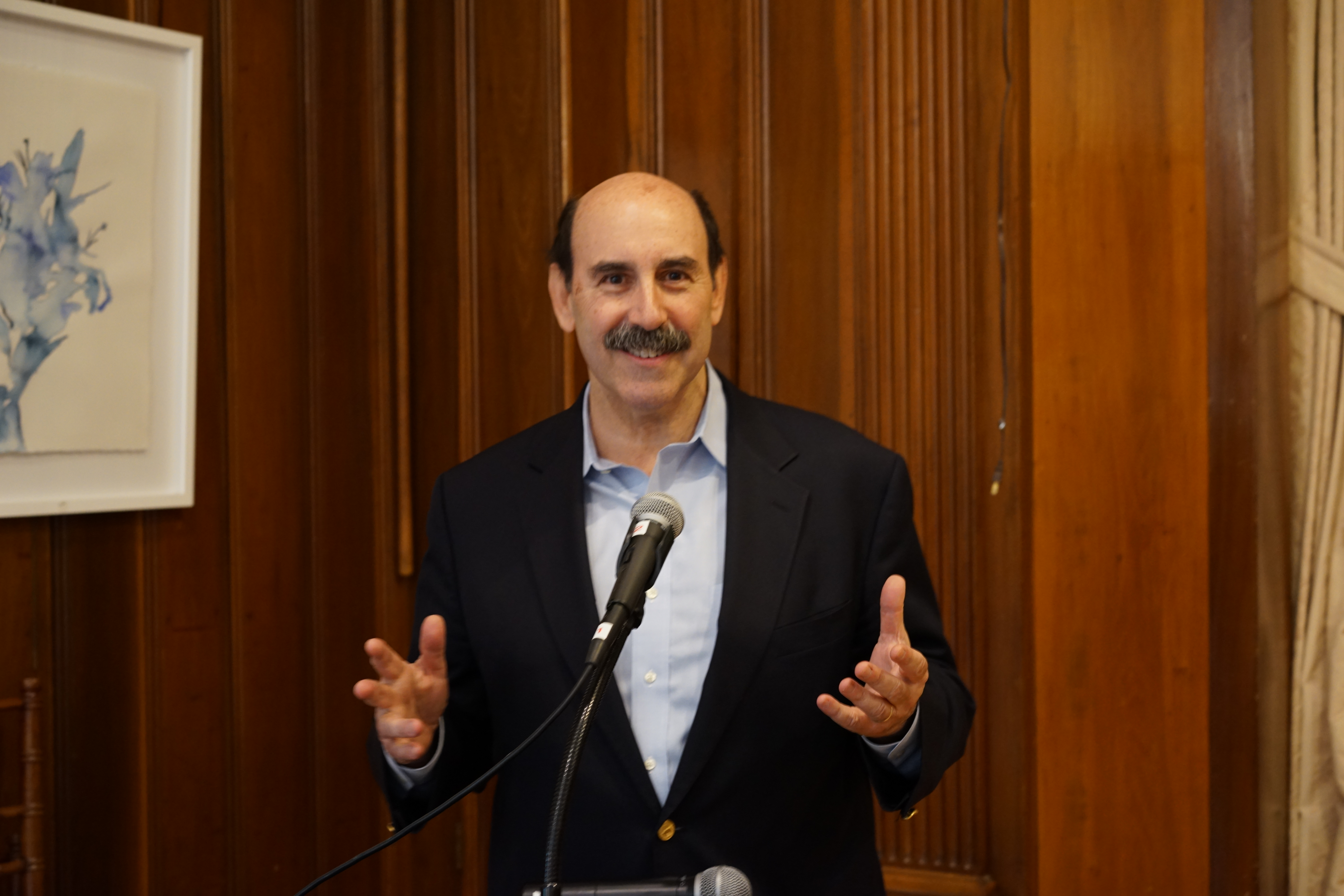 Steve Cohen giving a speech at Princeton University